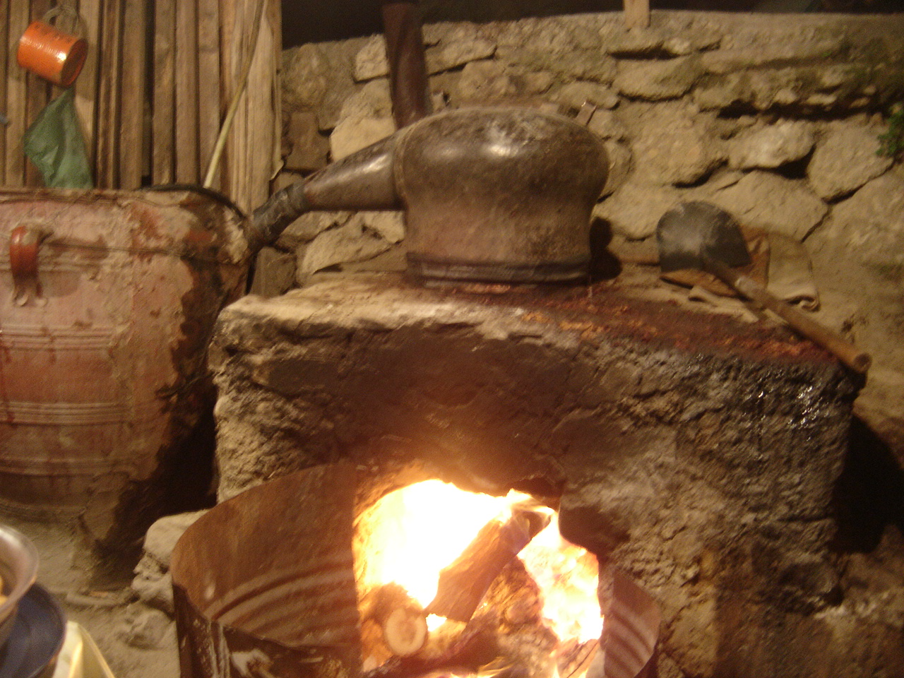 Tradition of "kazani" (production of alcoholic beverage "raki") in Amira, Heraklion, Crete.